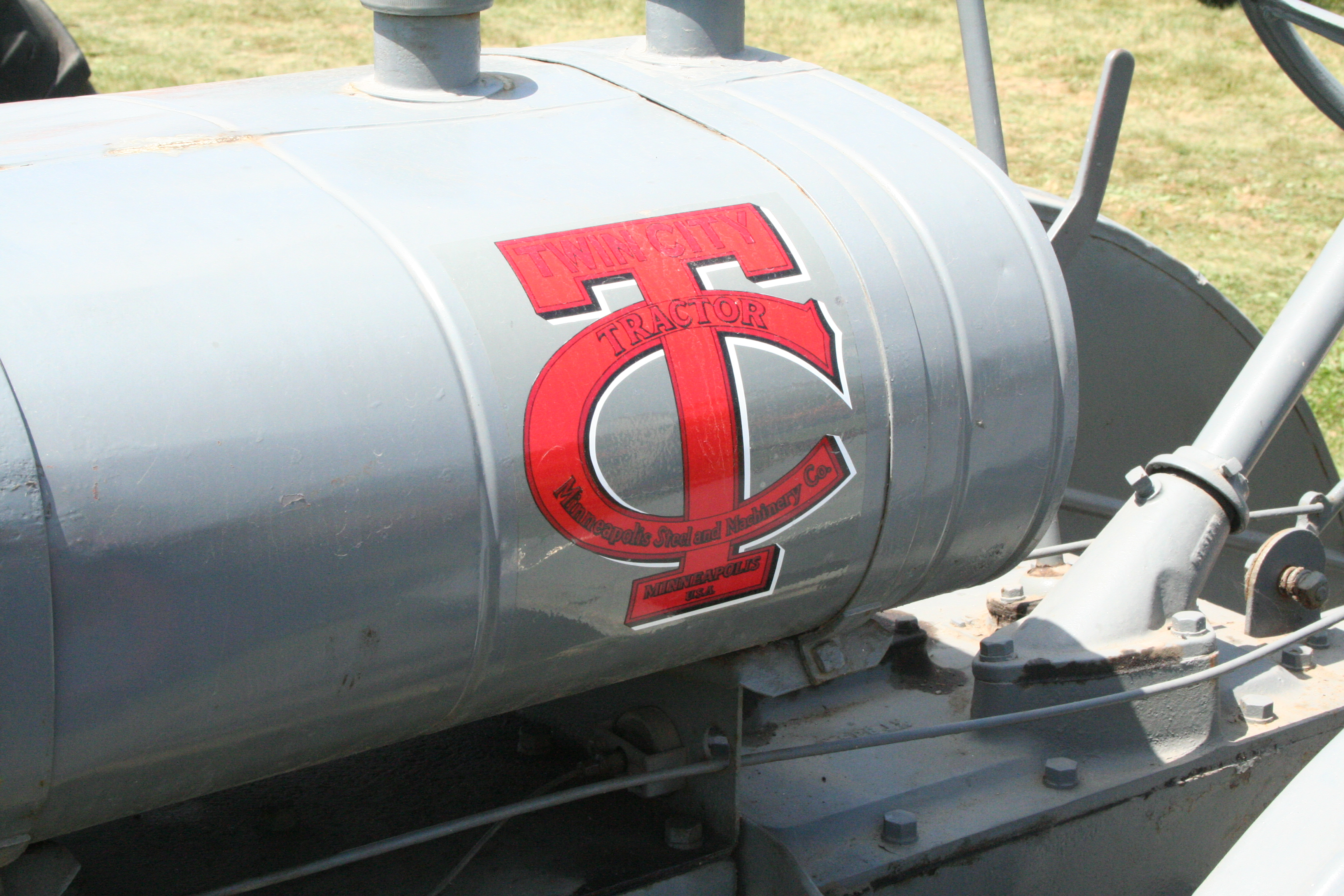 Minneapolis Steel & Machinery Company Twin City logo on tractor from the 2008 Dodge County Antique Power Show.